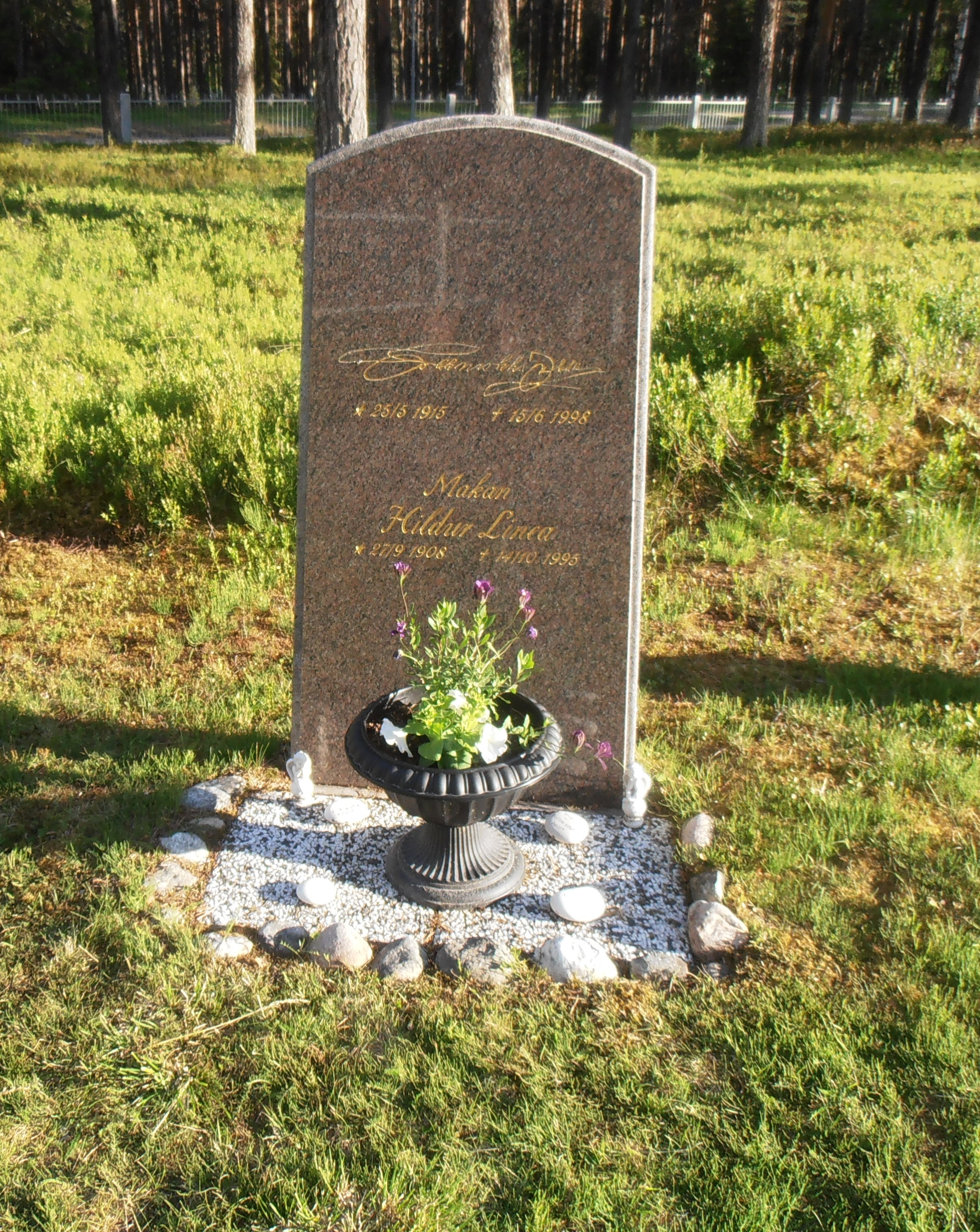 The gravestone of the Swedish singer Jokkmokks-Jokke (Bengt Johansson) on Vuollerims cemetery